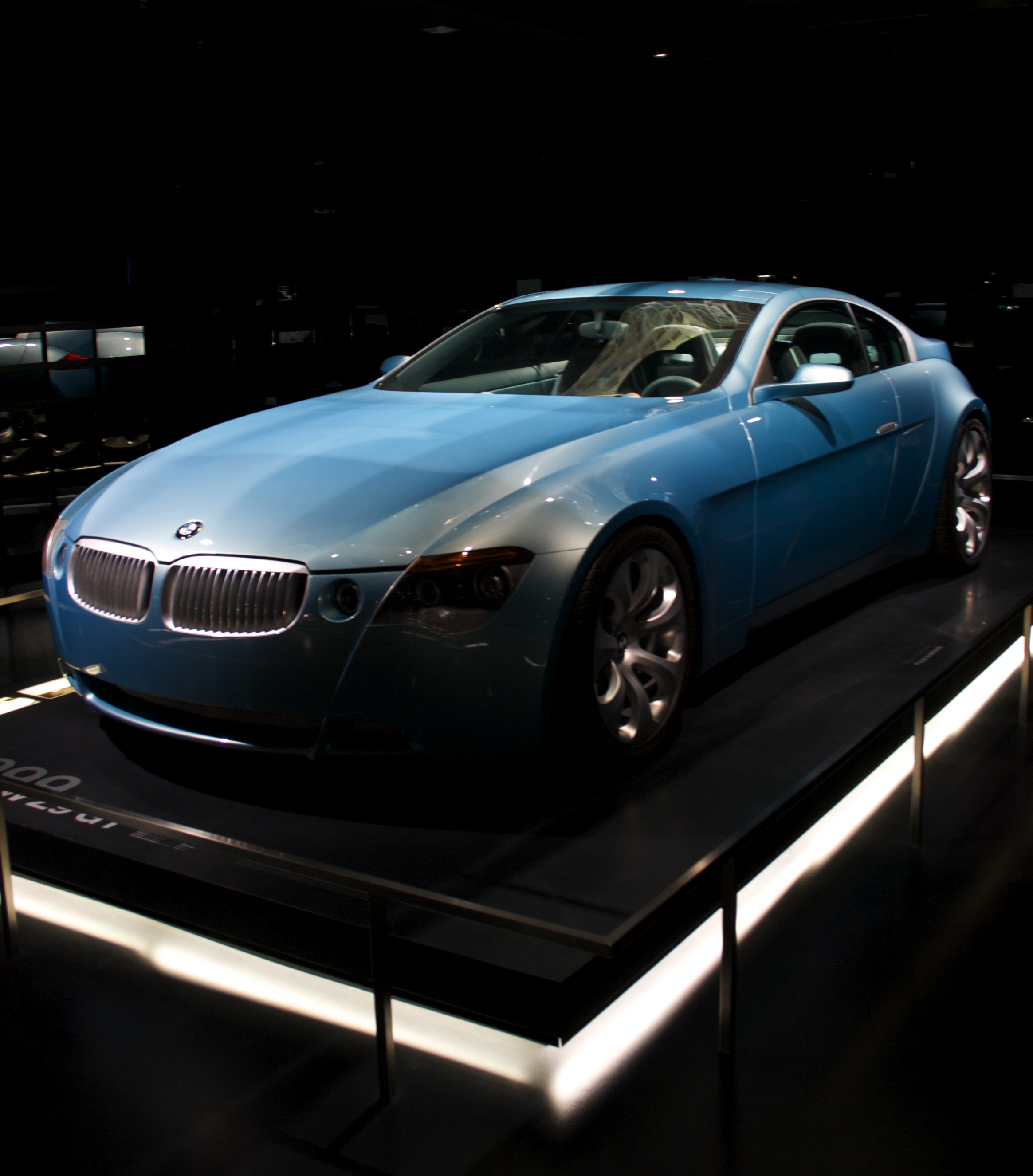 BMW Z9 concept car on display at BMW Museum Munich